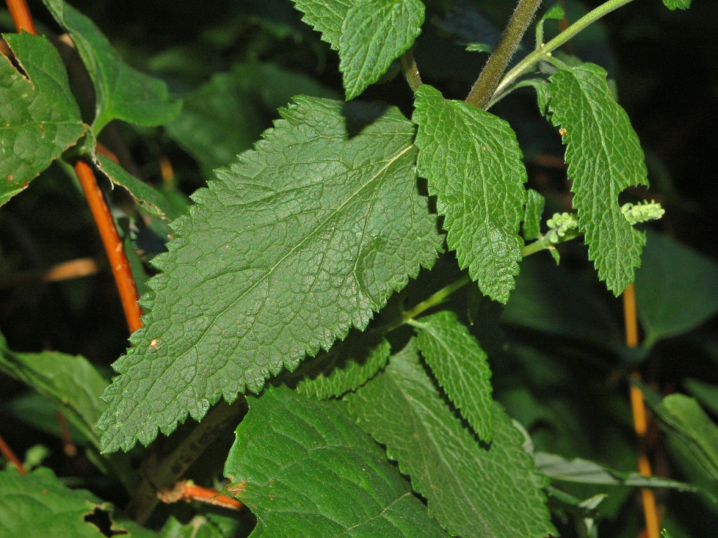 Teucrium scorodonia - Eremo del deserto, Genova, Italy